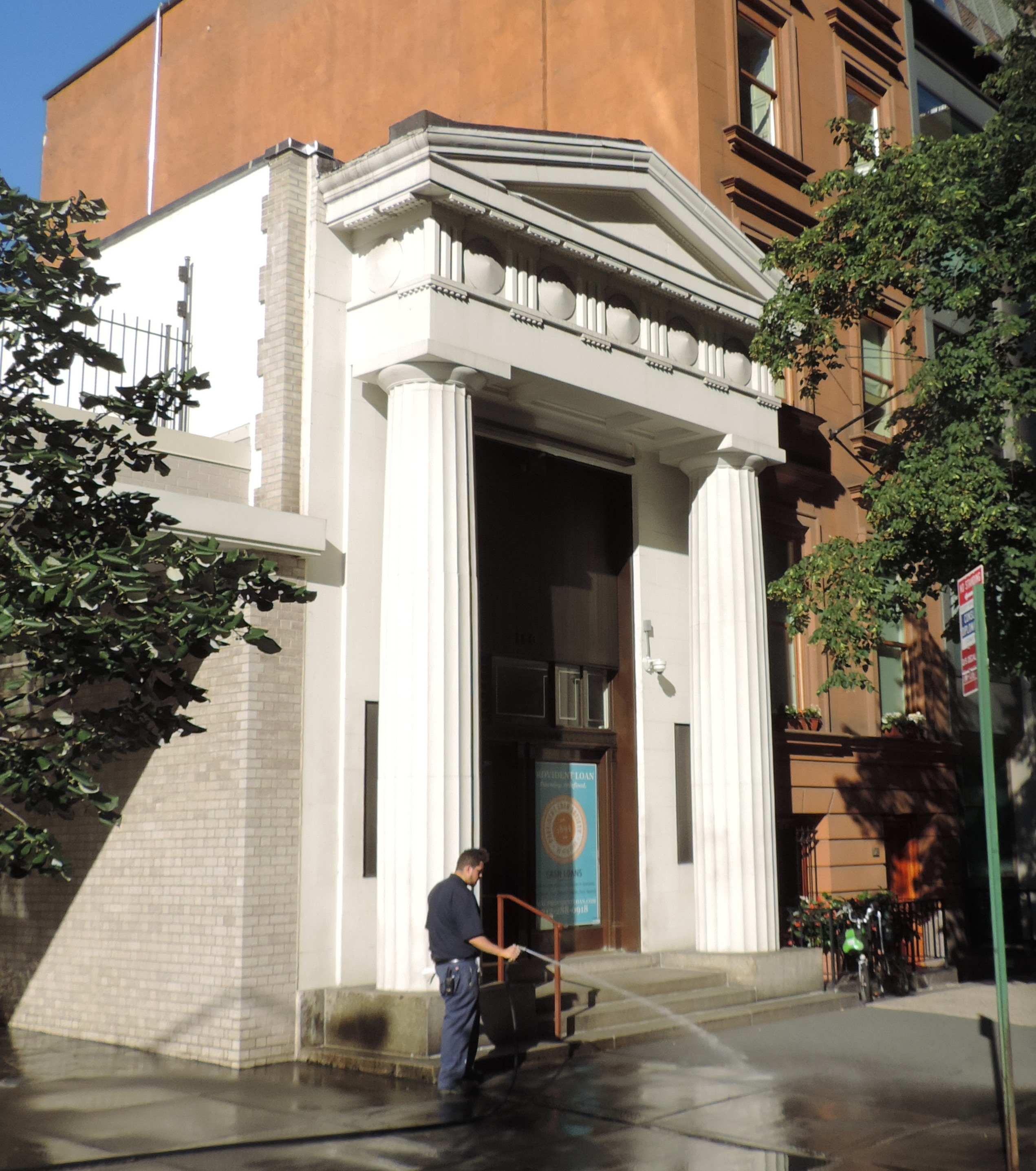 Looking west across 72nd St at a very narrow old bank branch. EXIF says 79th St due to photographer's error. 19th Ward Bank according to Daytonian New York